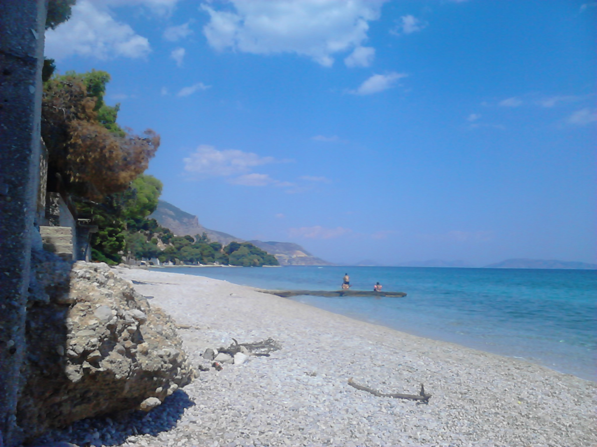 Kineta 191 00, Greece